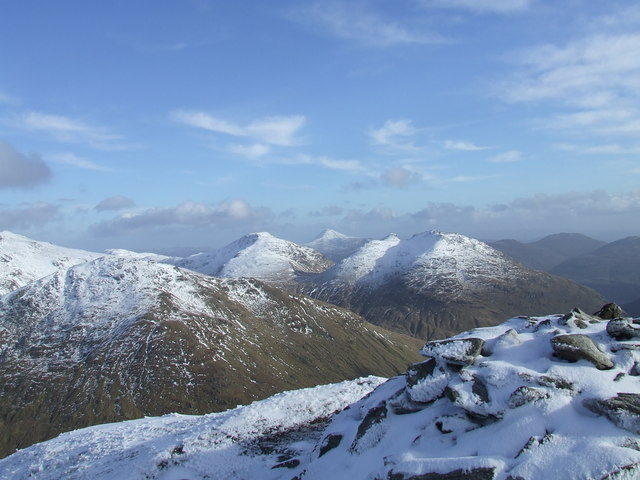 Ben Lomond over the Arrochar alps. Beinn Luibhean Beinn Narnain Ben Lomond and The Cobbler from Beinn an Lochain.